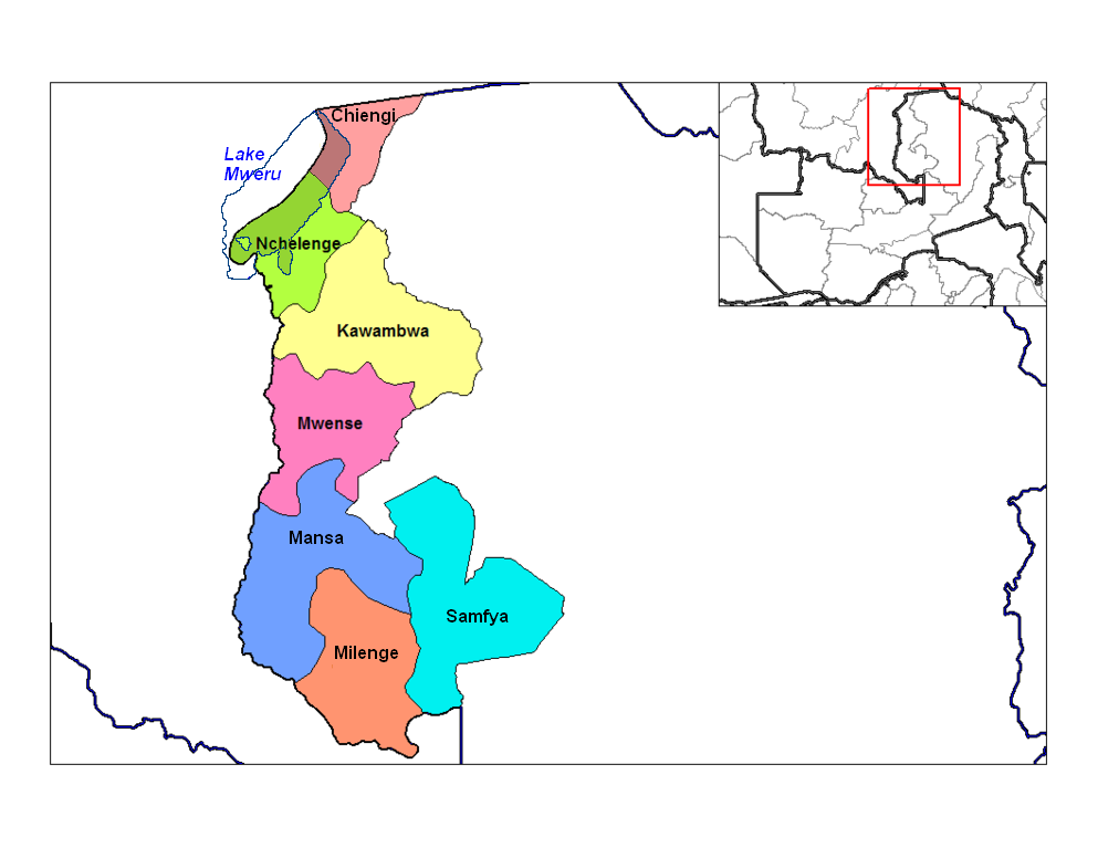 Corrections to Image:Luapula districts.png